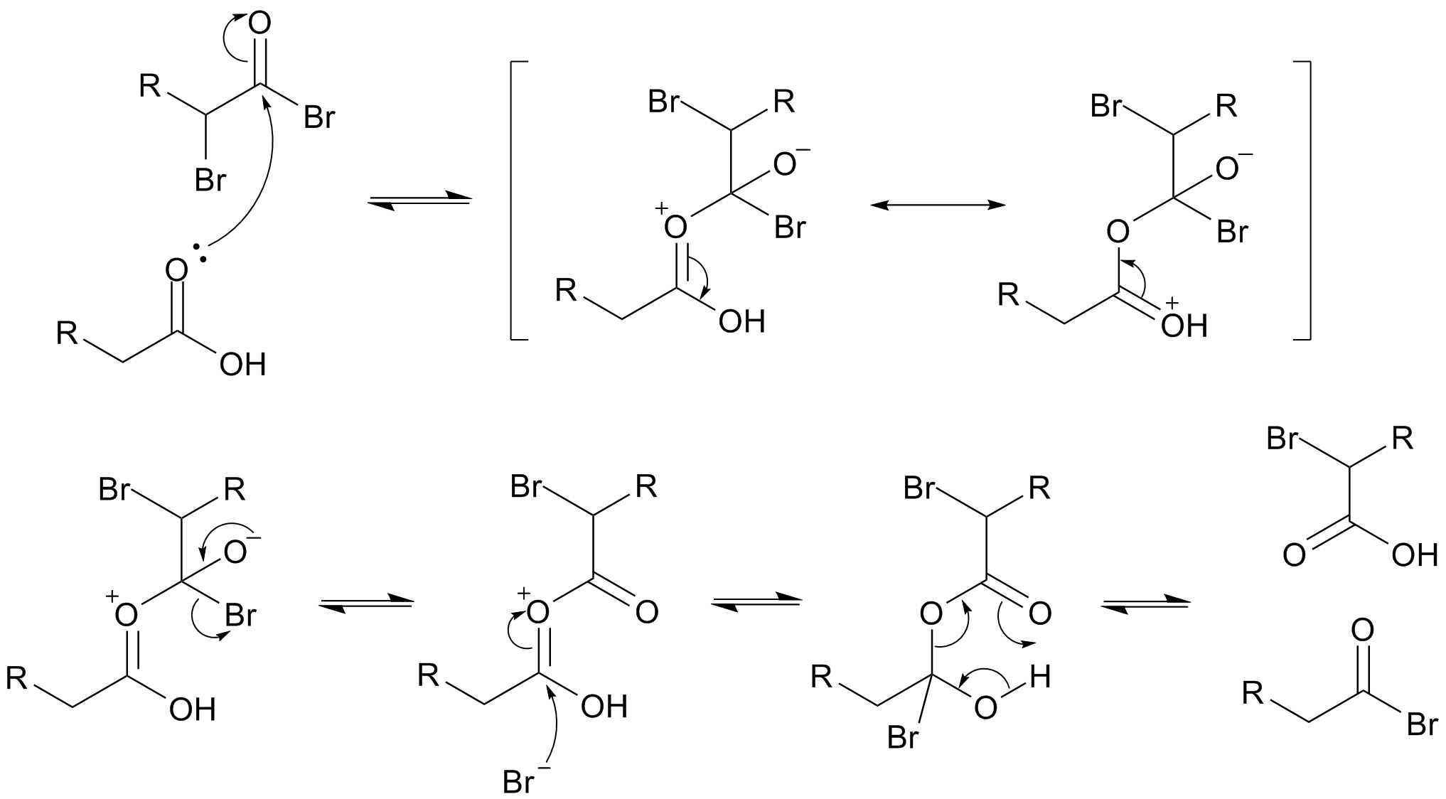 HVZ reaction mechanism